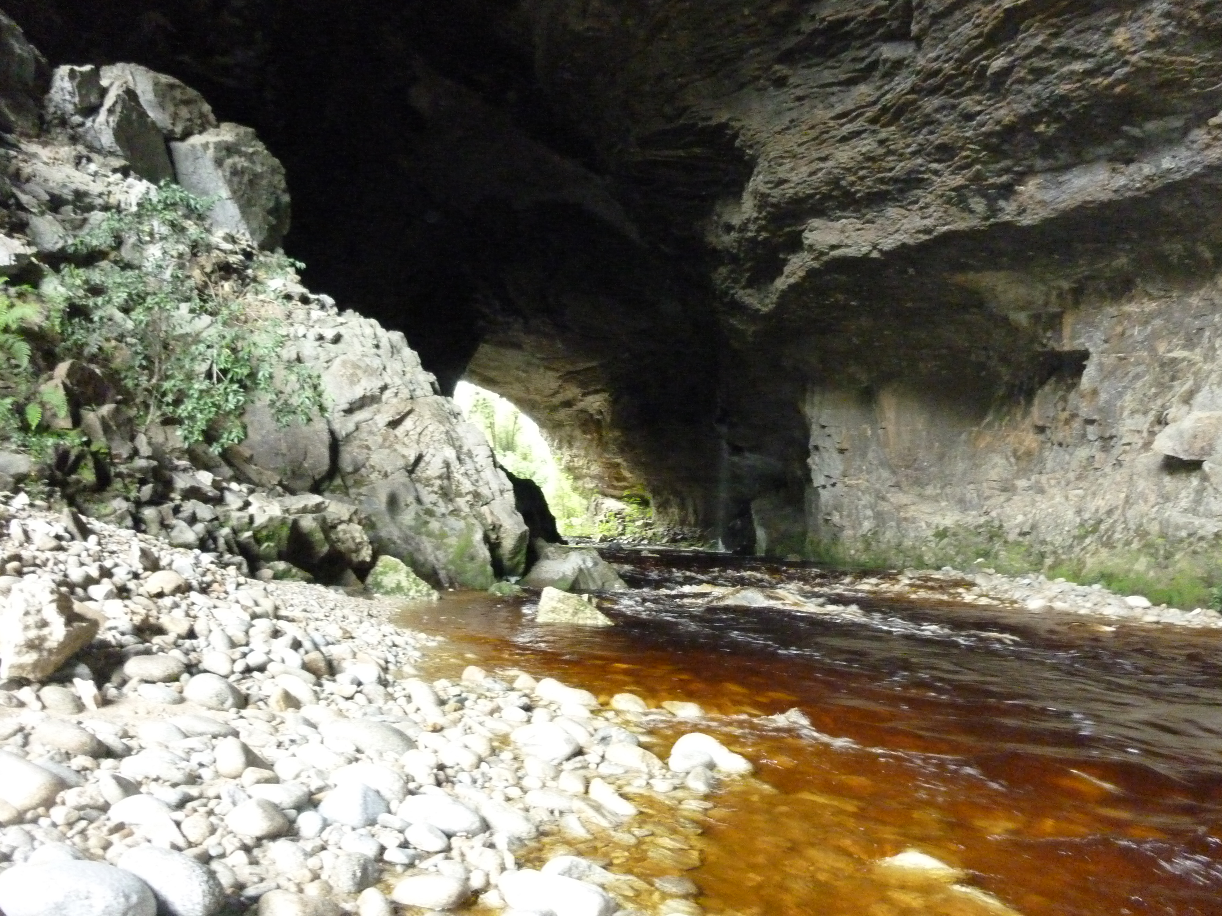 View of the Oparara Arch, from downstream, West Coast, South Island, New Zealand.